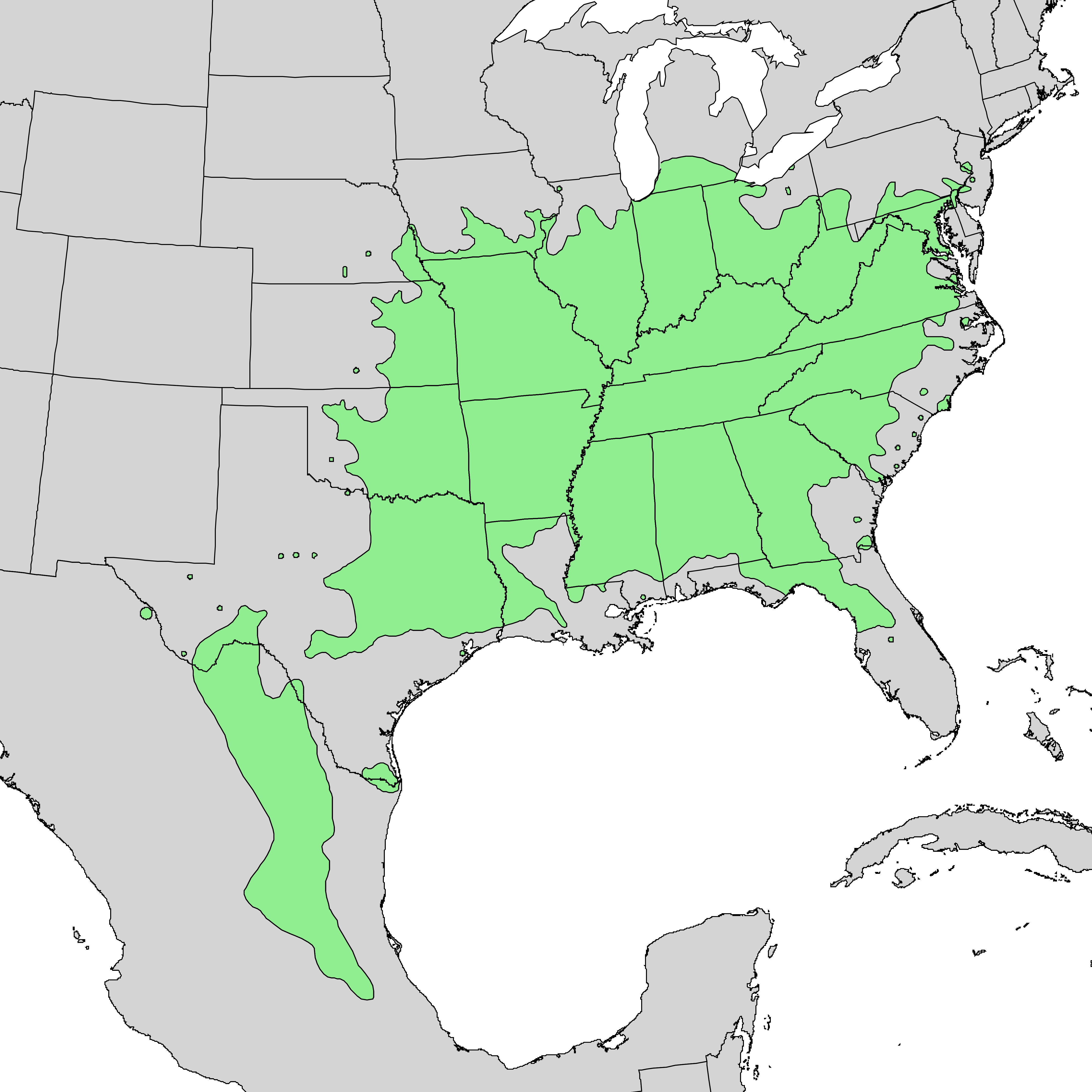 Natural distribution map for Cercis canadensis